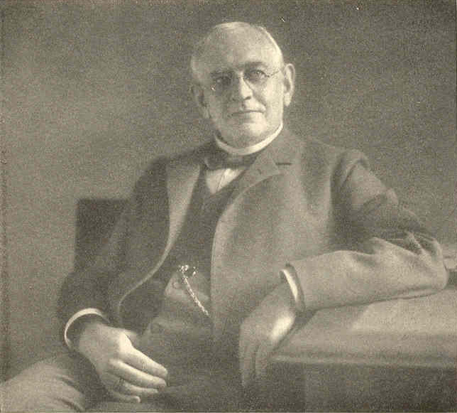 Friedrich Paulsen in 1907.